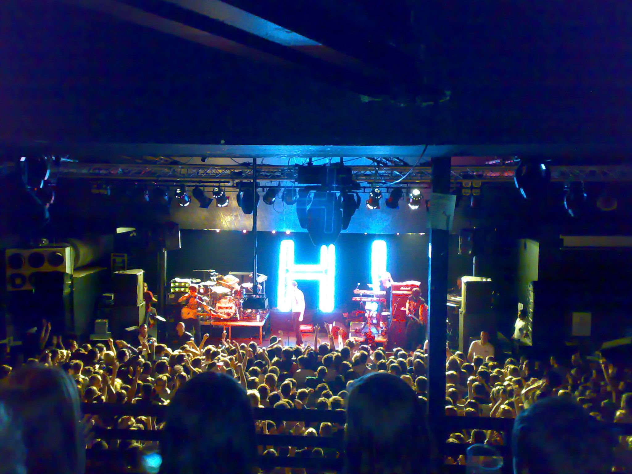 Taken with my phone